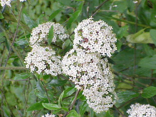 Species: Viburnum utile Family: Adoxaceae (formerly in Caprifoliaceae) Image No. 3